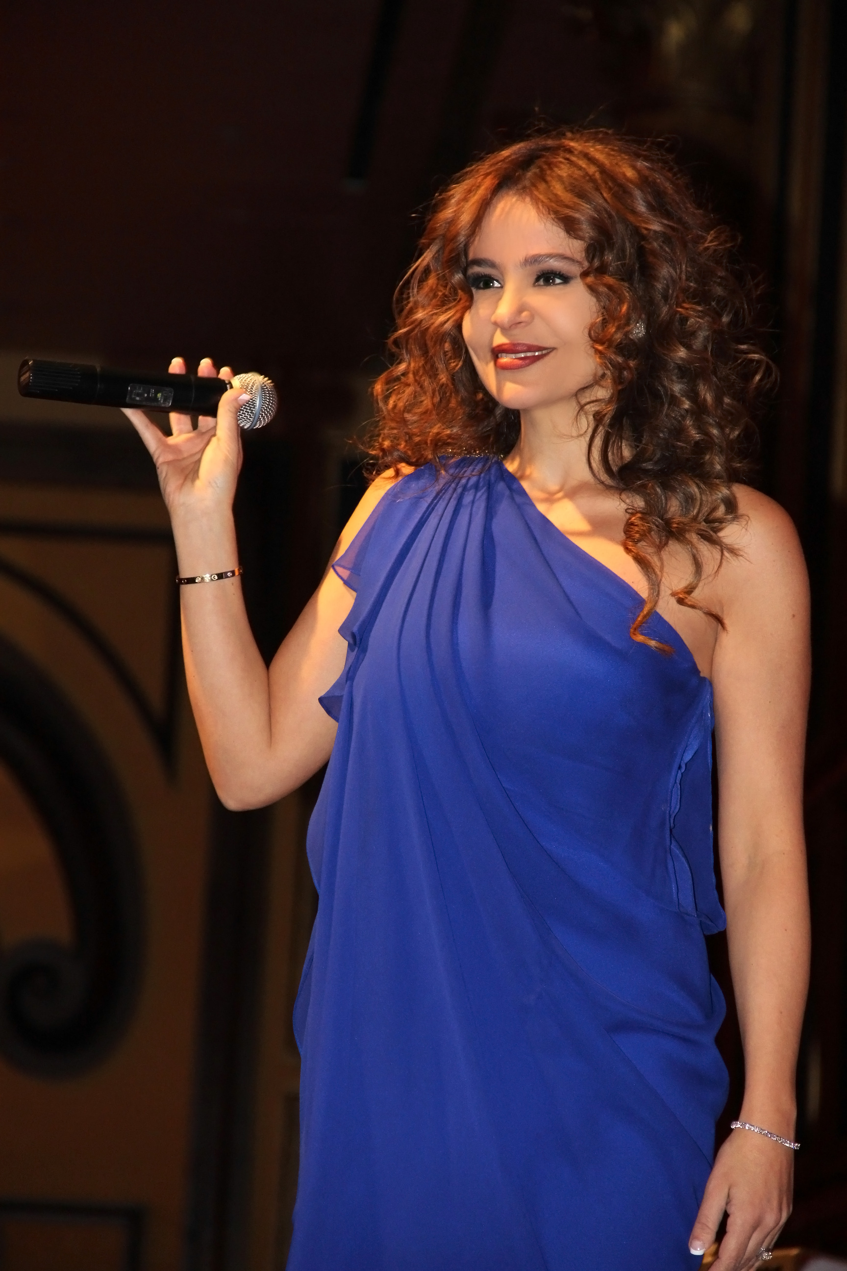 Carole Samaha On 2013 Valentine